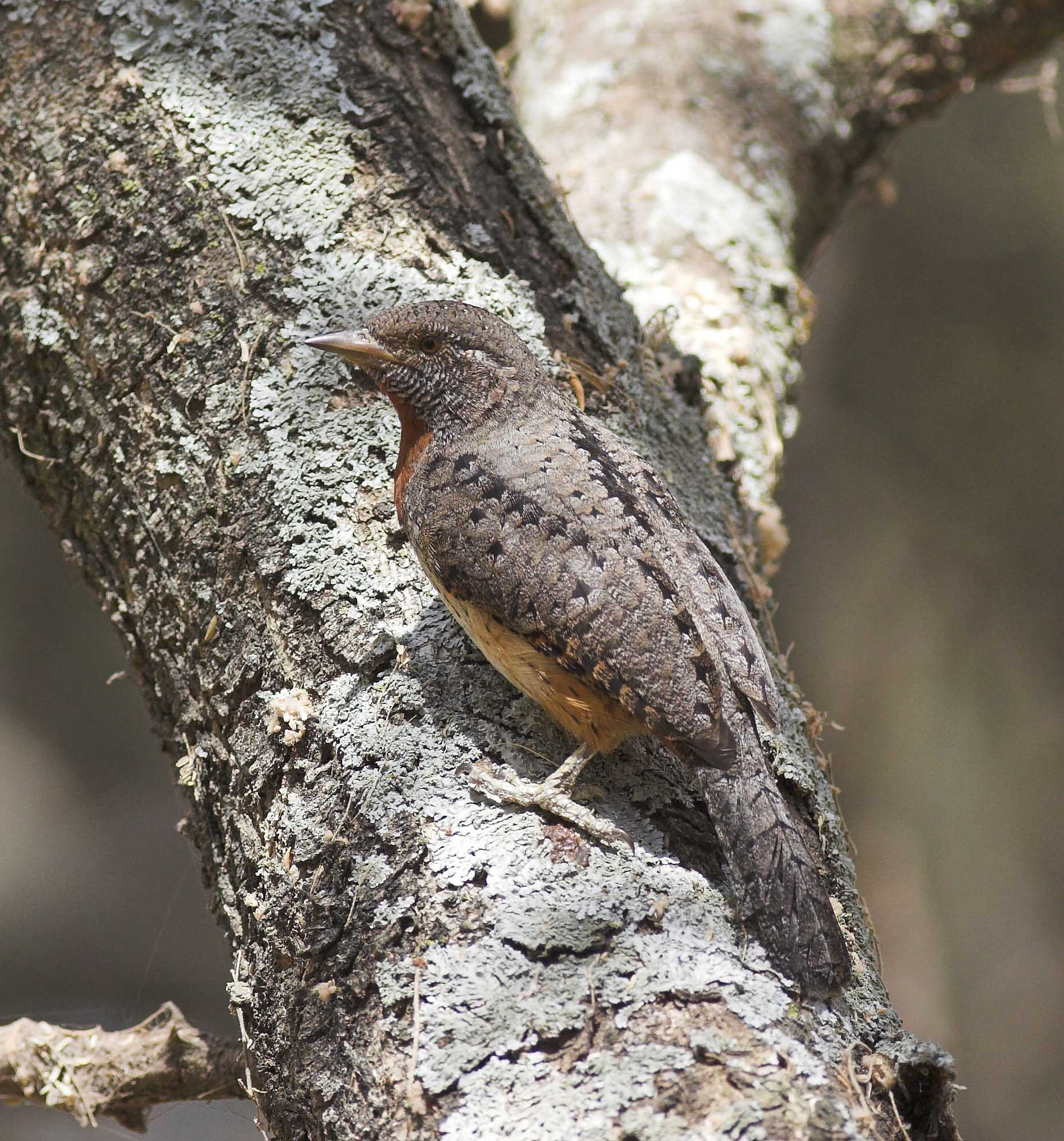 A Rufous-necked Wryneck in Ethiopia.